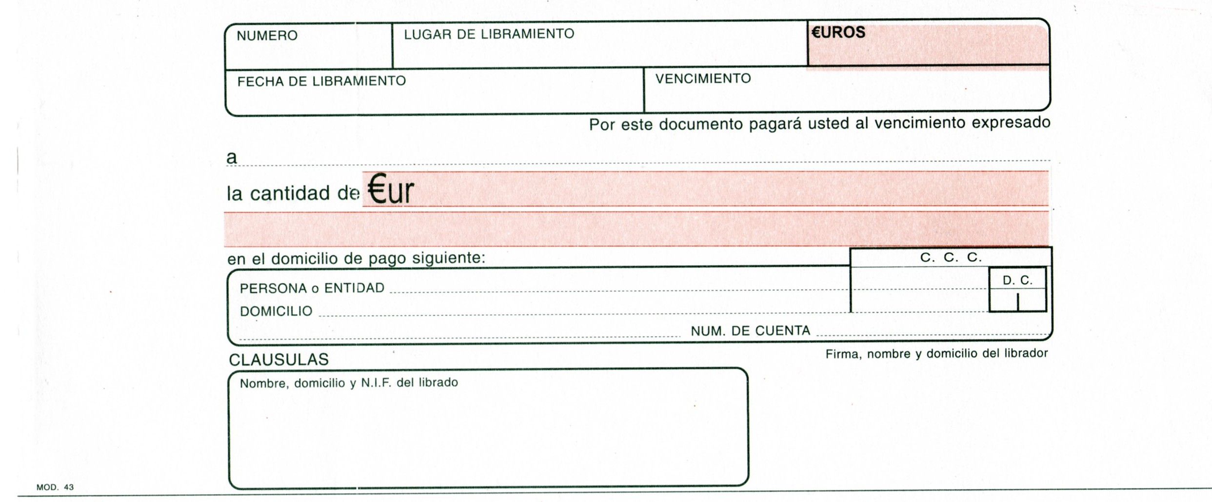 Bank receipt